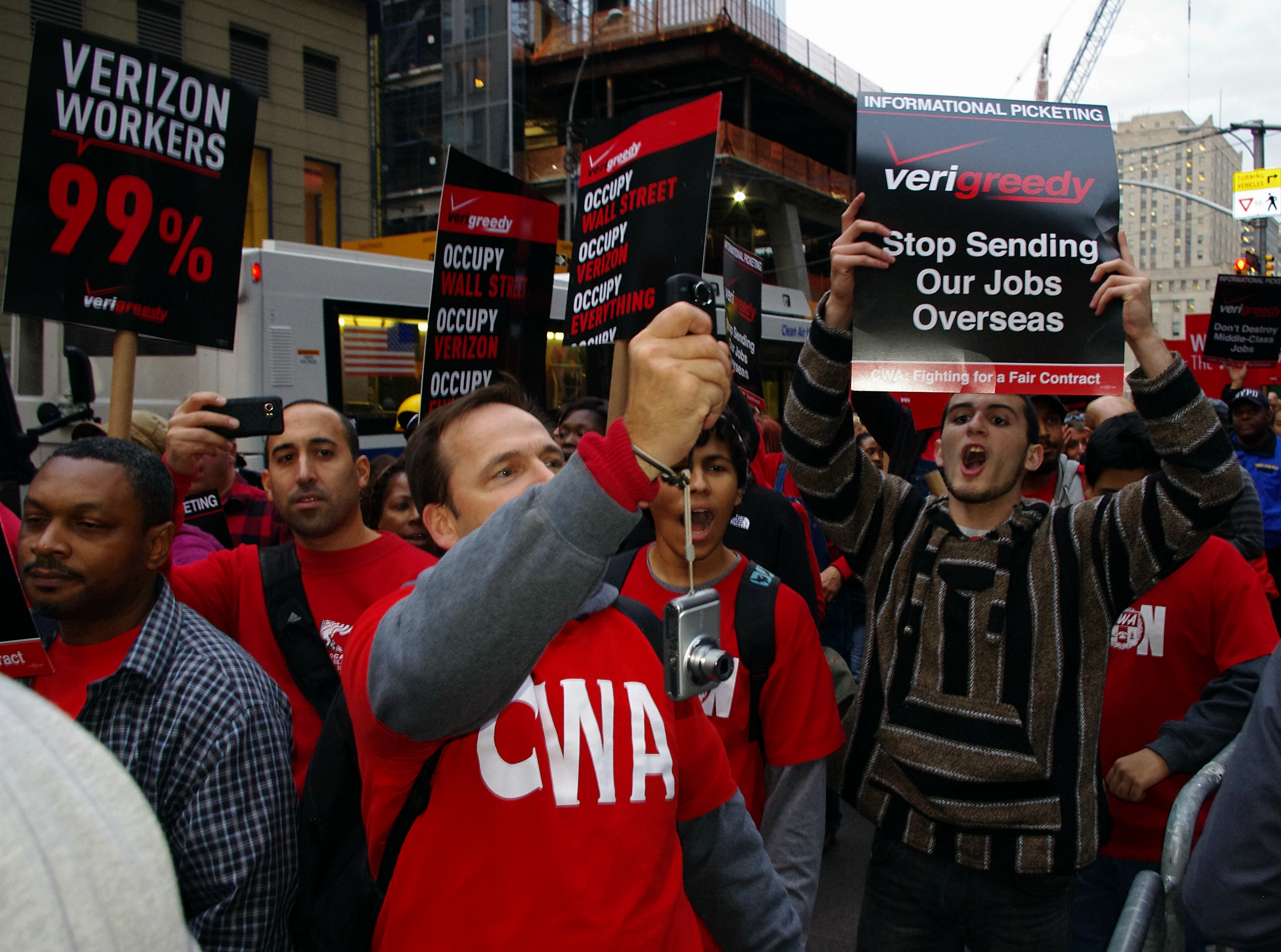 Photos from around Zuccotti Park on Day 36 of Occupy Wall Street in New York, Friday, October 21.